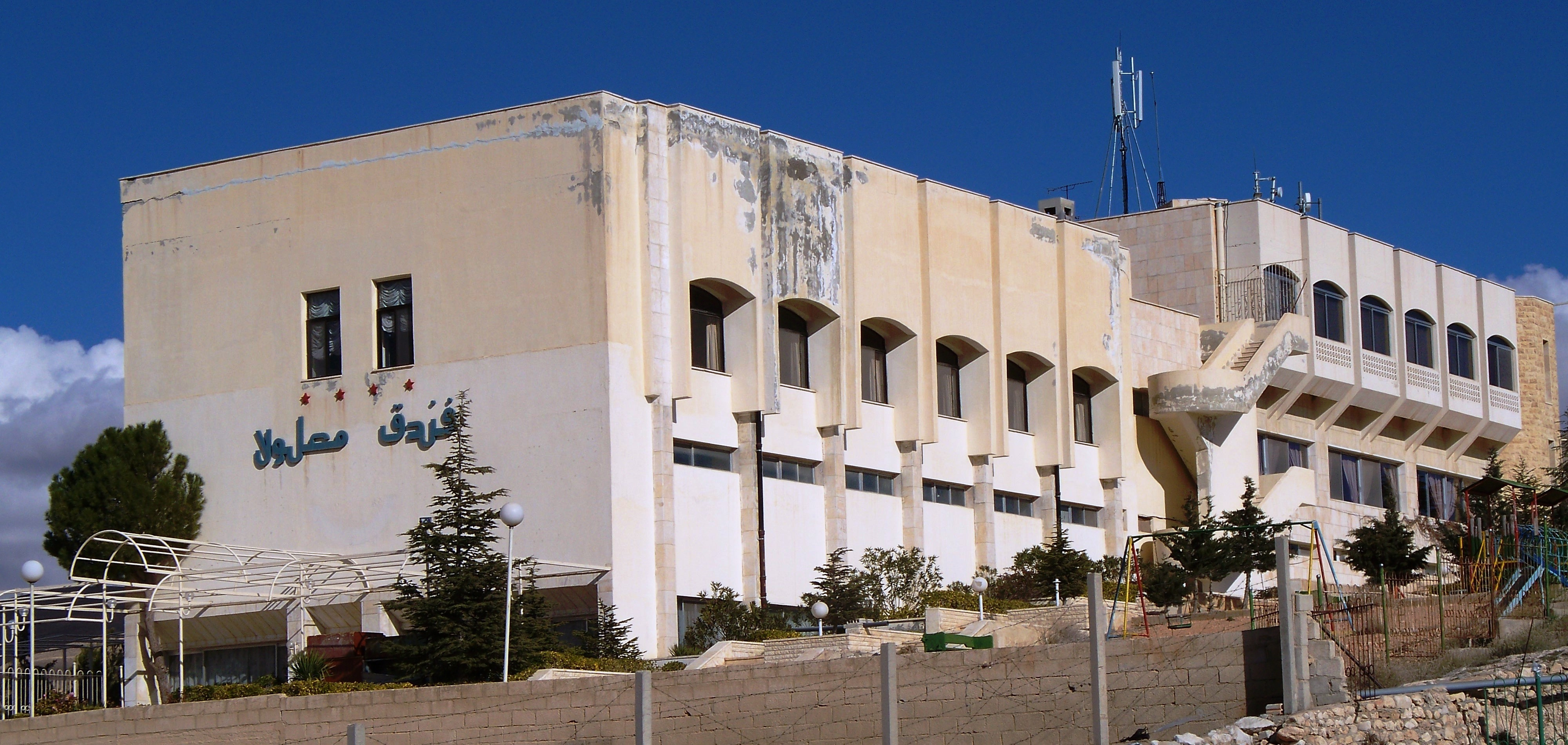 A Hotel in Maaloula, Syria.